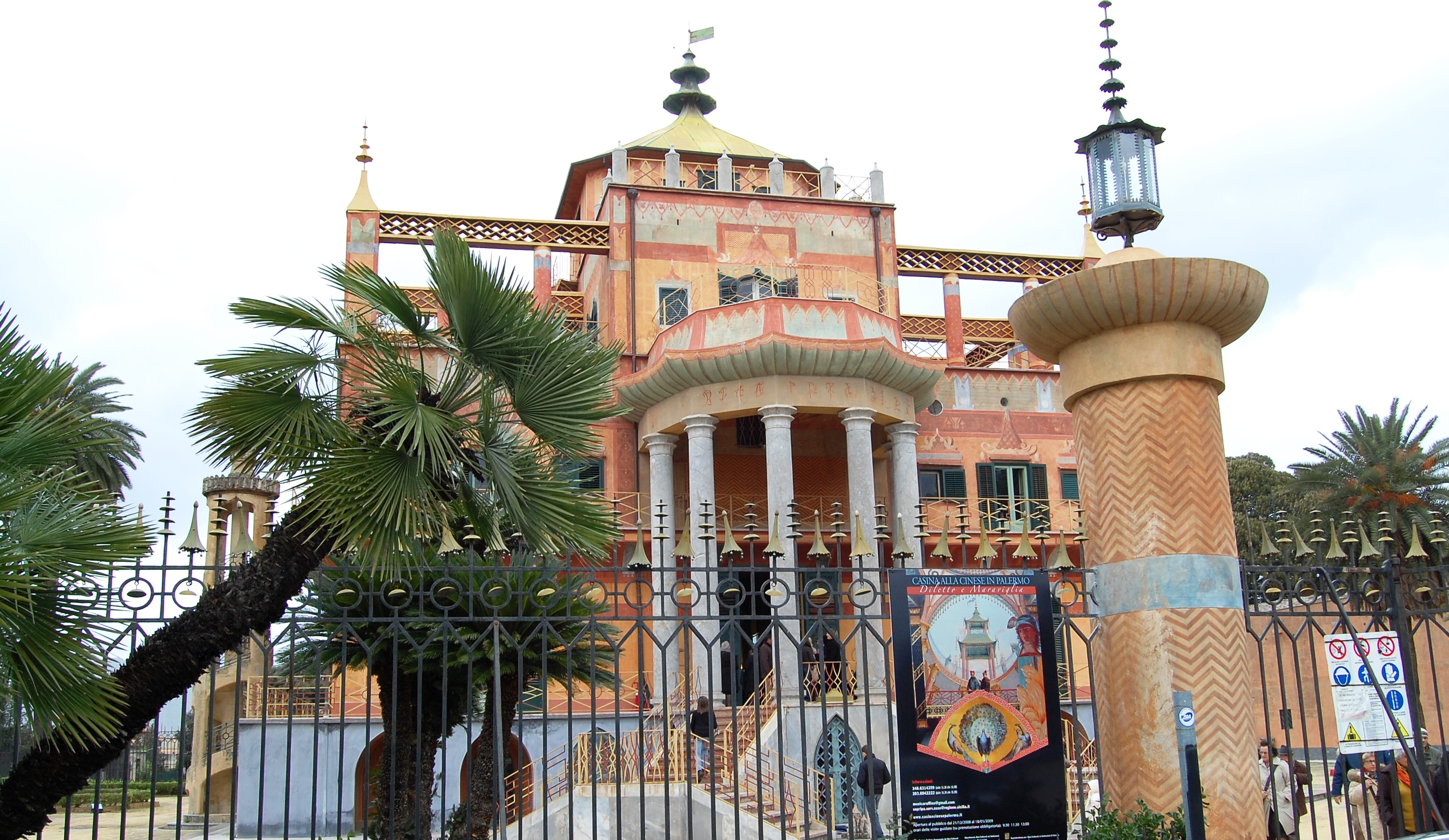 The Chinese Palace was a royal hunting pavillon designed in 1799 by Venanzio Marvuglia for Ferdinand IV of Bourbon in Favorita Park in Palermo, (Italy).